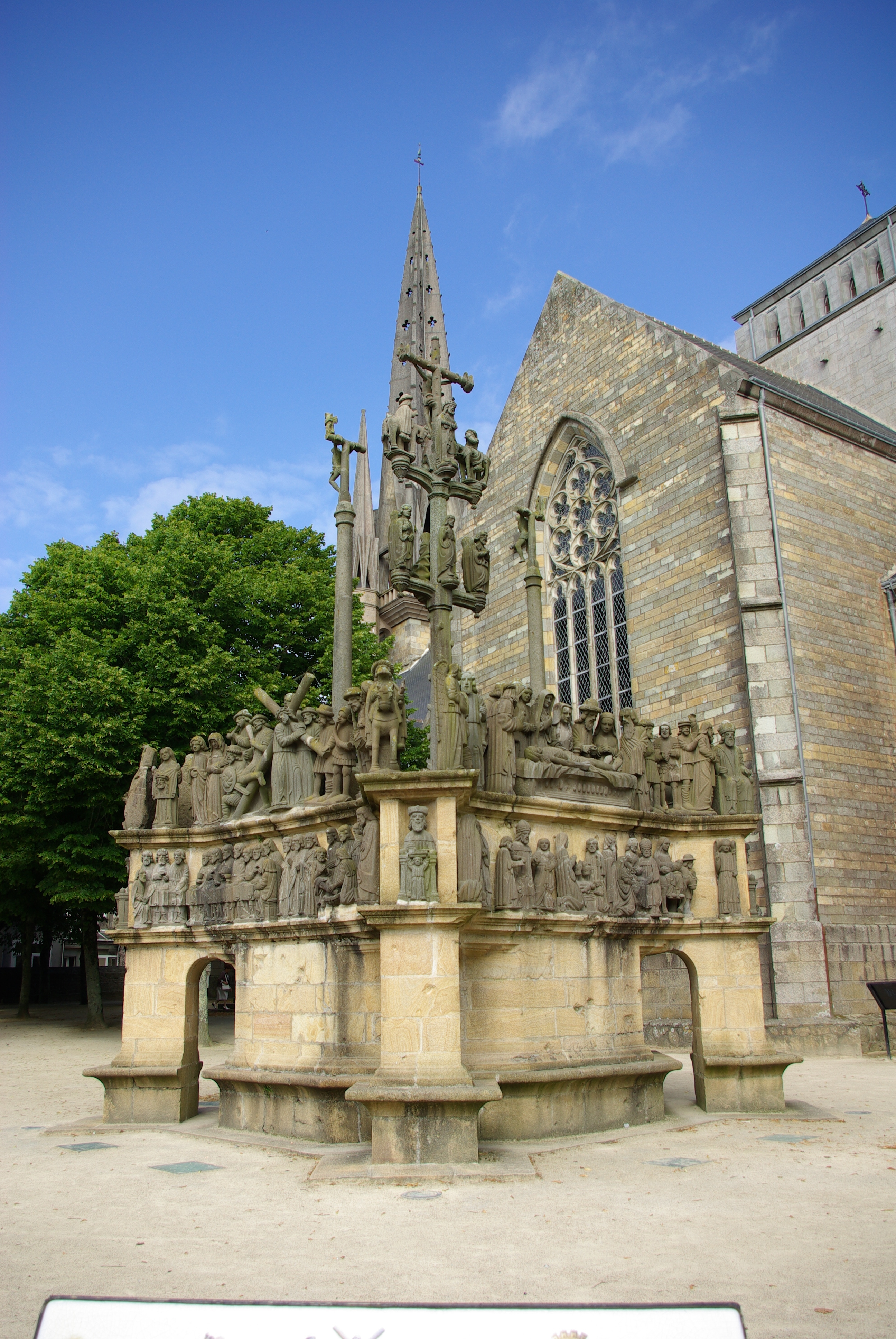 Calvary of Plougastel-Daoulas (Finistère, France)